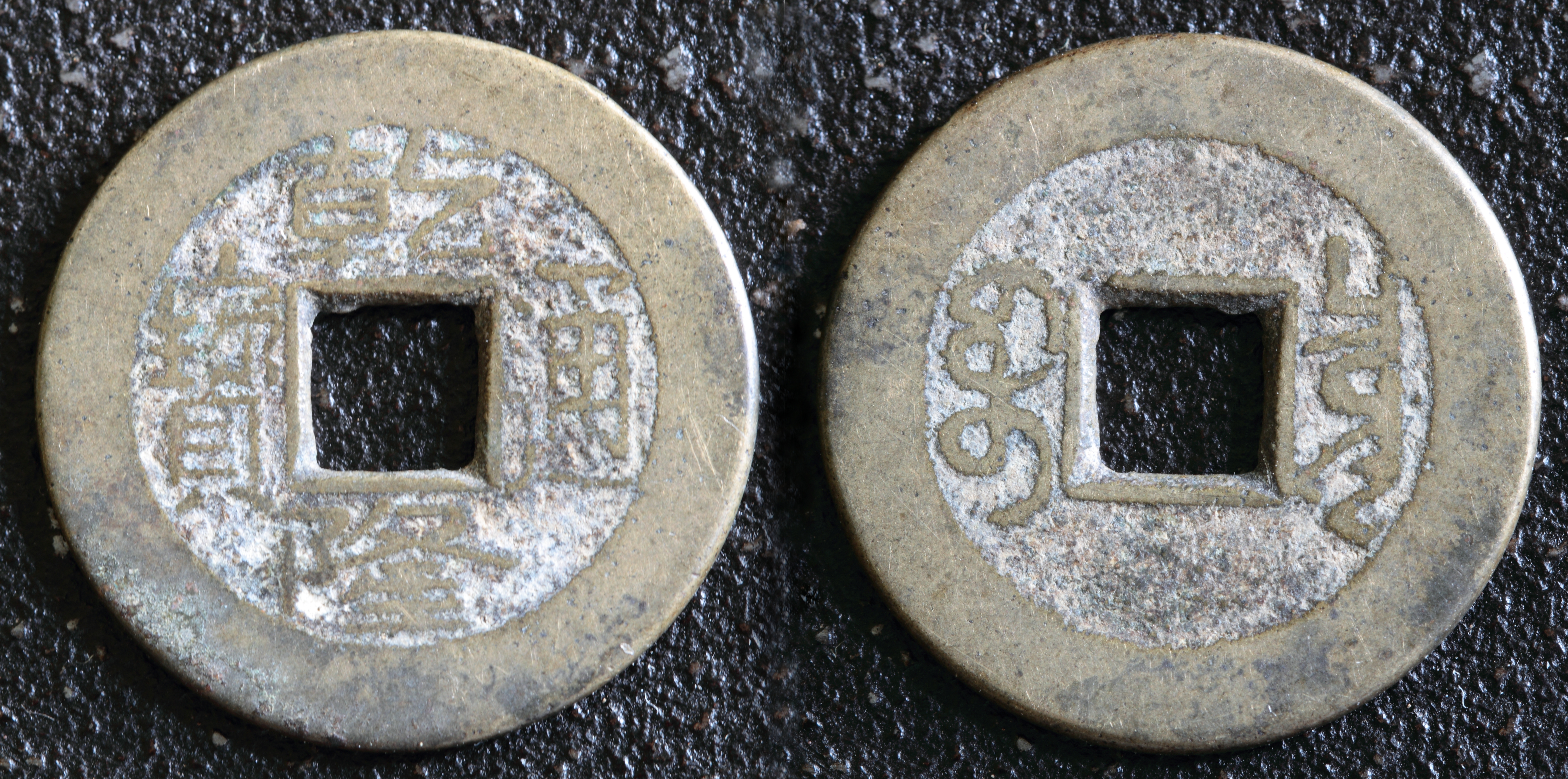 Coin from Qing Dynasty. These coins were used from 1636 until 1911. Teaching and research collection of Laval University library